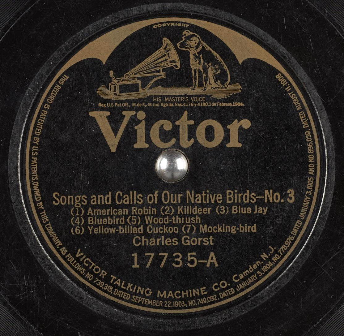 Victor record of bird imitations by Charles Crawford Gorst